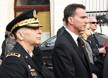 Ambassador Lee Feinstein and Major General William Enyart in procession to Wawel Cathedral, at the funeral of the Polish President Lech Kaczyński.